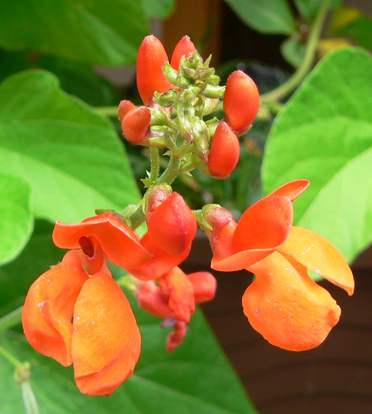 blossoms of runner beans